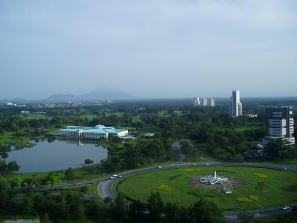 Petra Jaya Skyscrapers